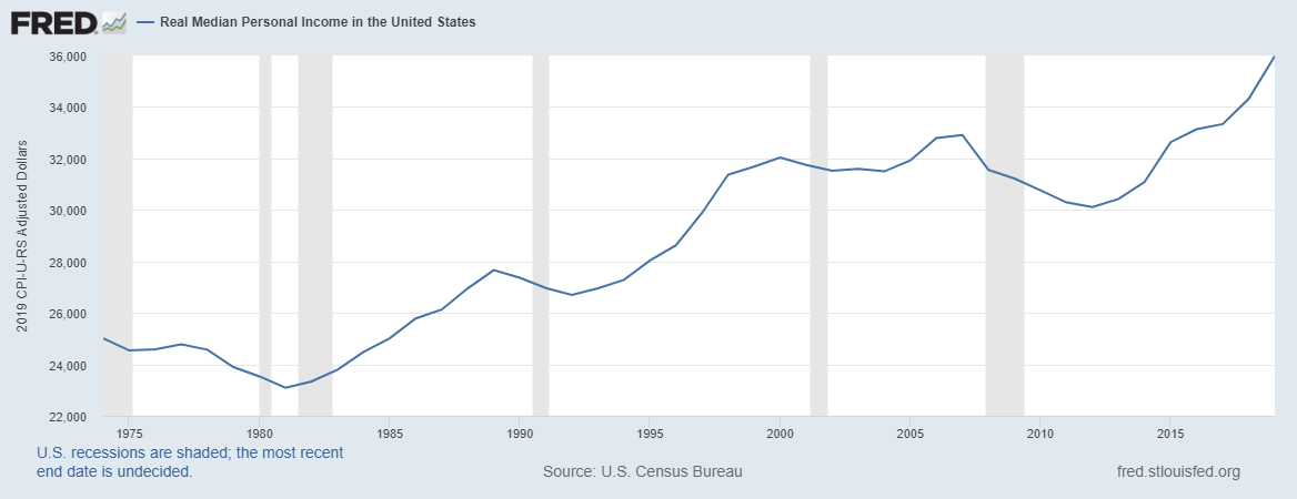 Real Median Personal Income in the United States over time. The shaded areas indicate recessions.